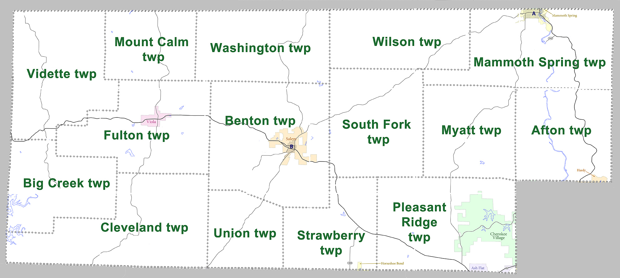 Large map showing townships in Fulton County, Arkansas. Modified from US census map (for 2010 census) for Fulton County, Arkansas